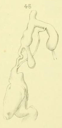 Eucobresia pegorarii (Pollonera, 1884), Vitrinidae, Gastropoda, Mollusca, Aosta, Italy, genital apparatus (from Pollonera, 1884: pl. 10, fig,45)